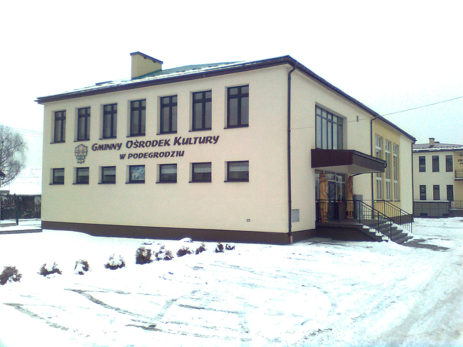 Community centre in Podegrodzie (Lesser Poland Voivodeship)